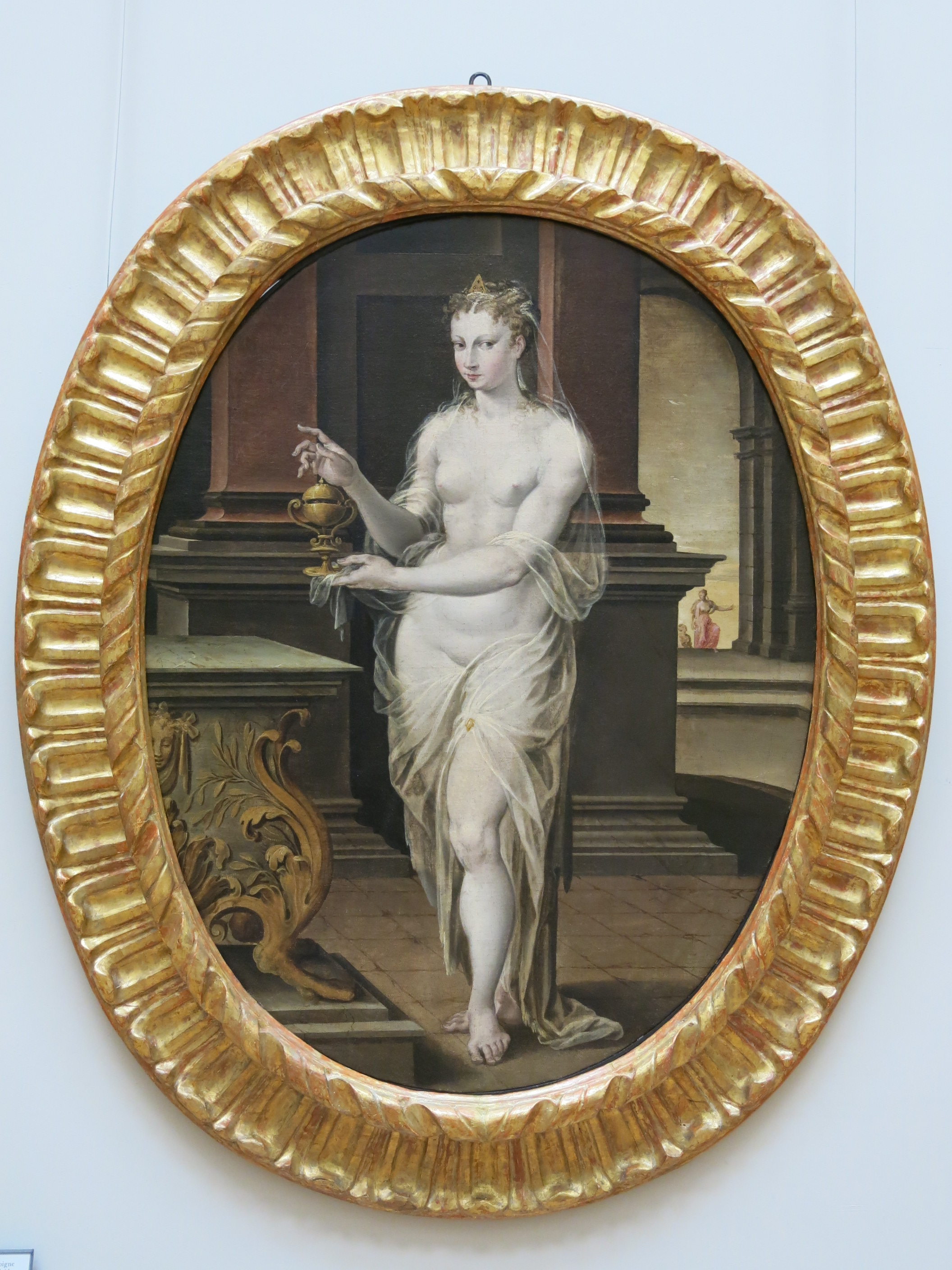 Pandora is about to open the box containing all the misfortunes of the world. Nicolò dell'Abate, 1555. Louvre (Paris, France).